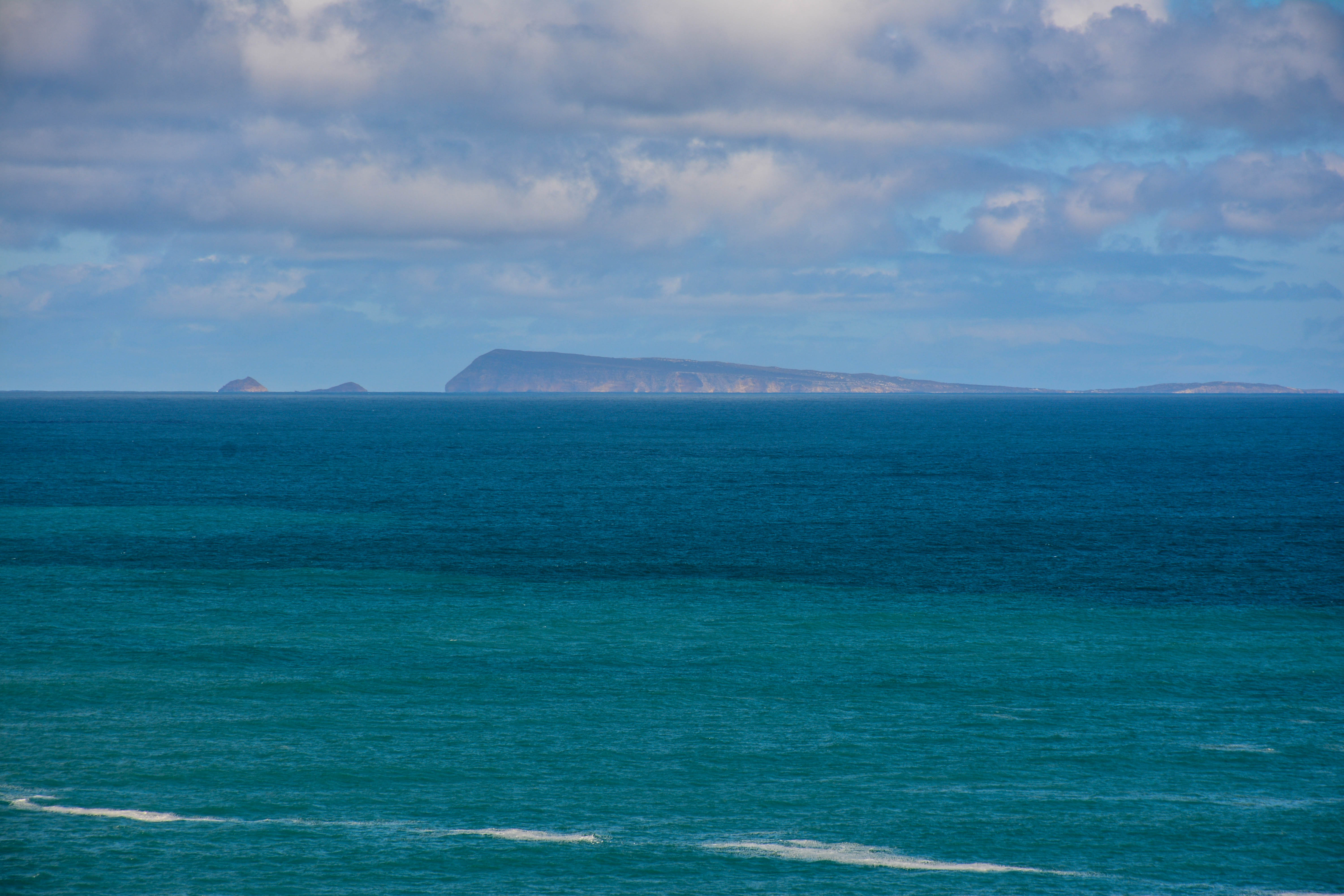 Wedge Island, west of Royston Head, on the Yorke Peninsula, South Australia.